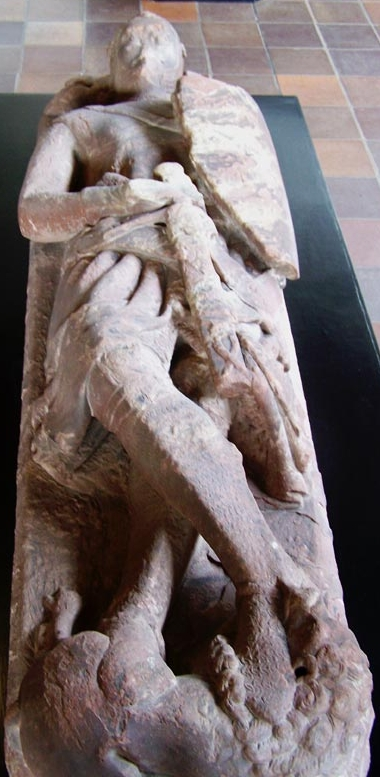 A cropped version of File:13th century grave cover (Furness Abbey).jpg. This is a photo of a effigy in the abbey museum of Furness Abbey.